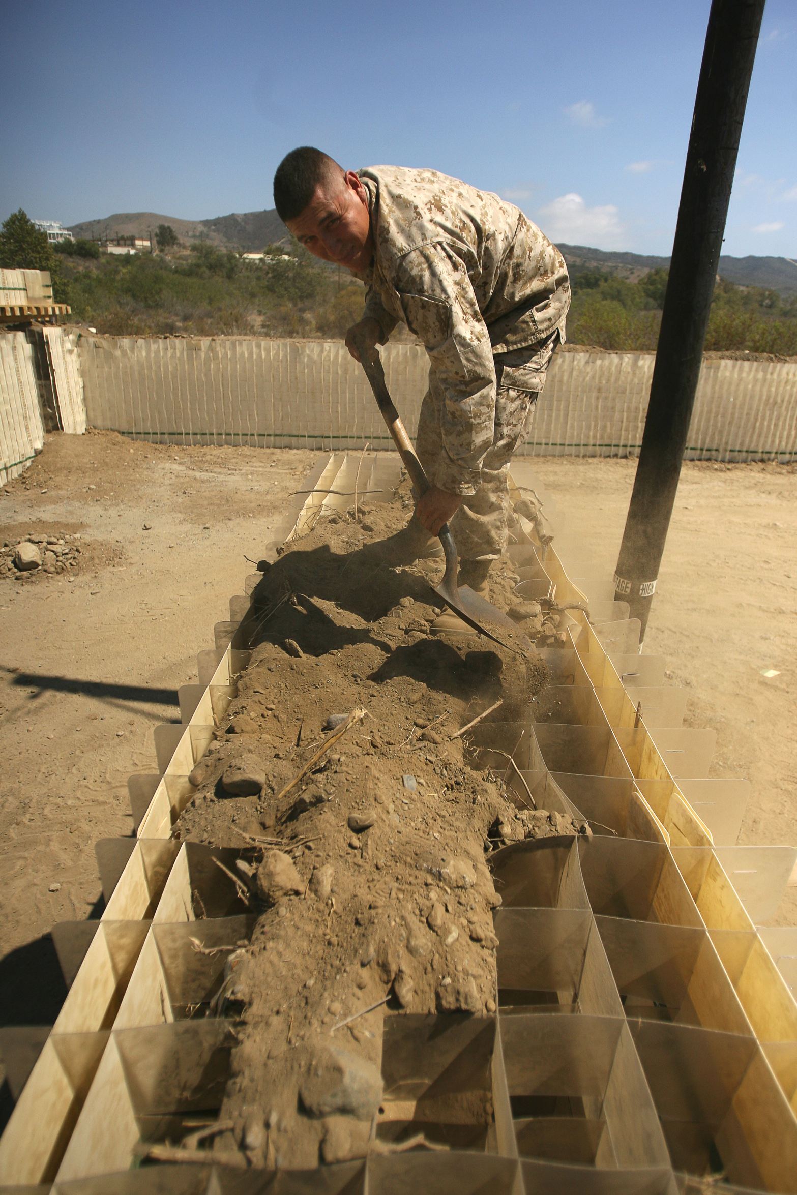 Lance Cpl. Emilio Avalos, combat engineer with 1st Combat Engineers Battalion, from El Paso, Texas, shovels dirt into a Geocell barrier.